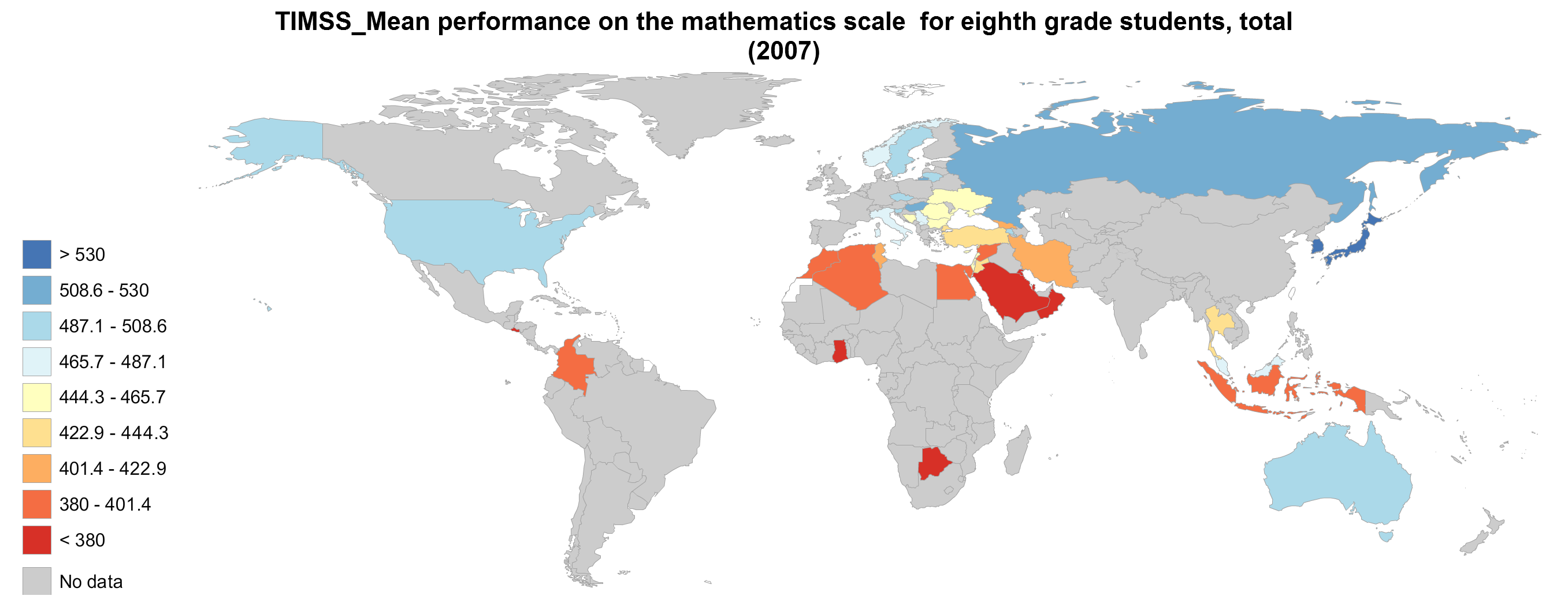 "Trends in International Mathematics and Science Study" 2007 8th Grade Students average Mathematics scores